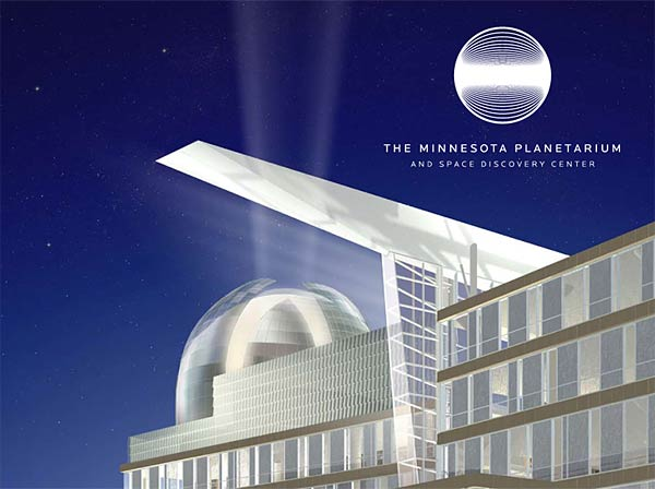 An exterior shot of the proposed facility with a logo